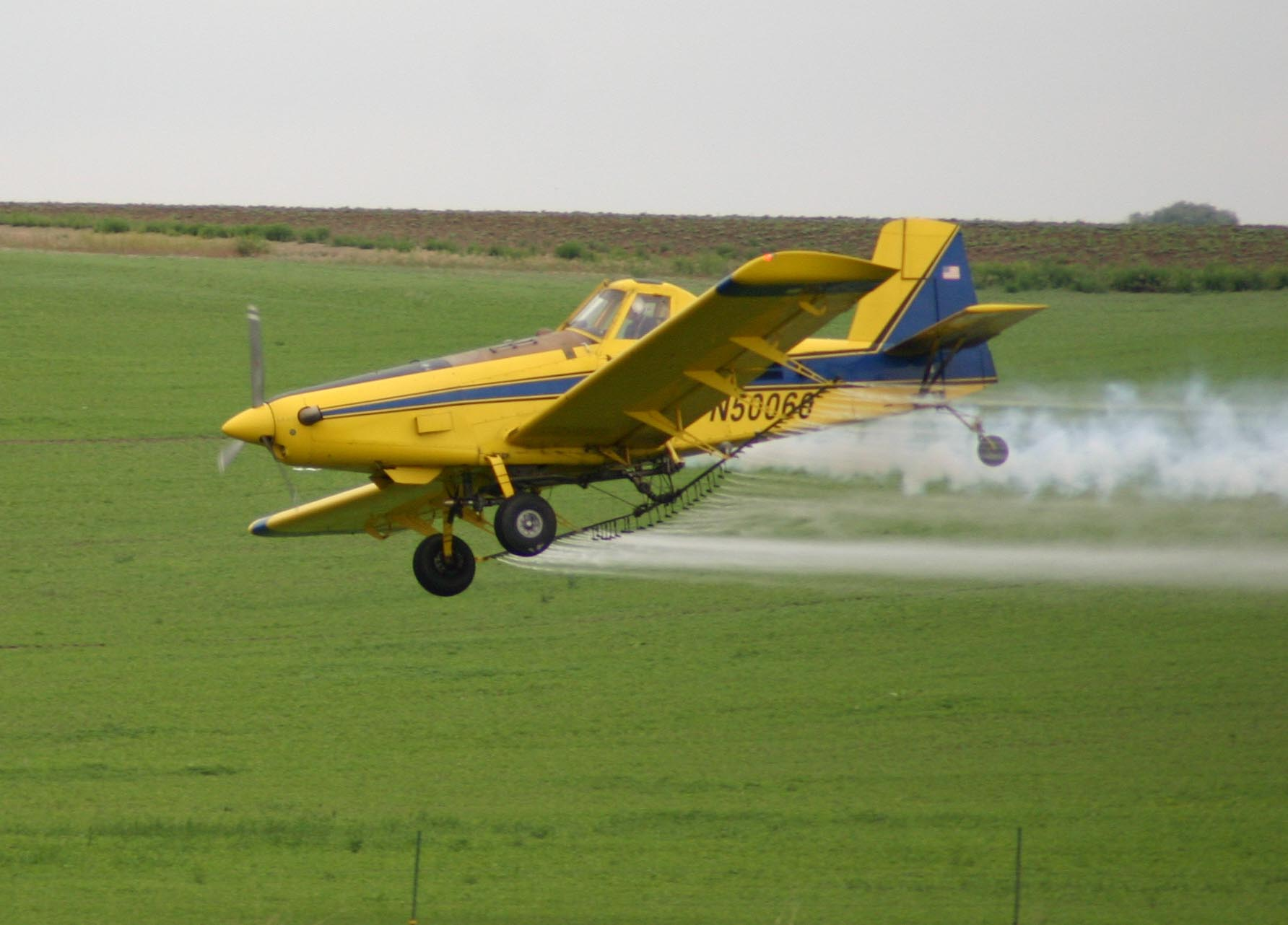 Crop duster over a field in North Central Washington.